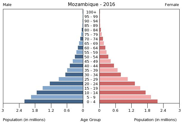 The population pyramid of Mozambique illustrates the age and sex structure of population and may provide insights about political and social stability, as well as economic development. The population is distributed along the horizontal axis, with males shown on the left and females on the right. The male and female populations are broken down into 5-year age groups represented as horizontal bars along the vertical axis, with the youngest age groups at the bottom and the oldest at the top. The shape of the population pyramid gradually evolves over time based on fertility, mortality, and international migration trends.